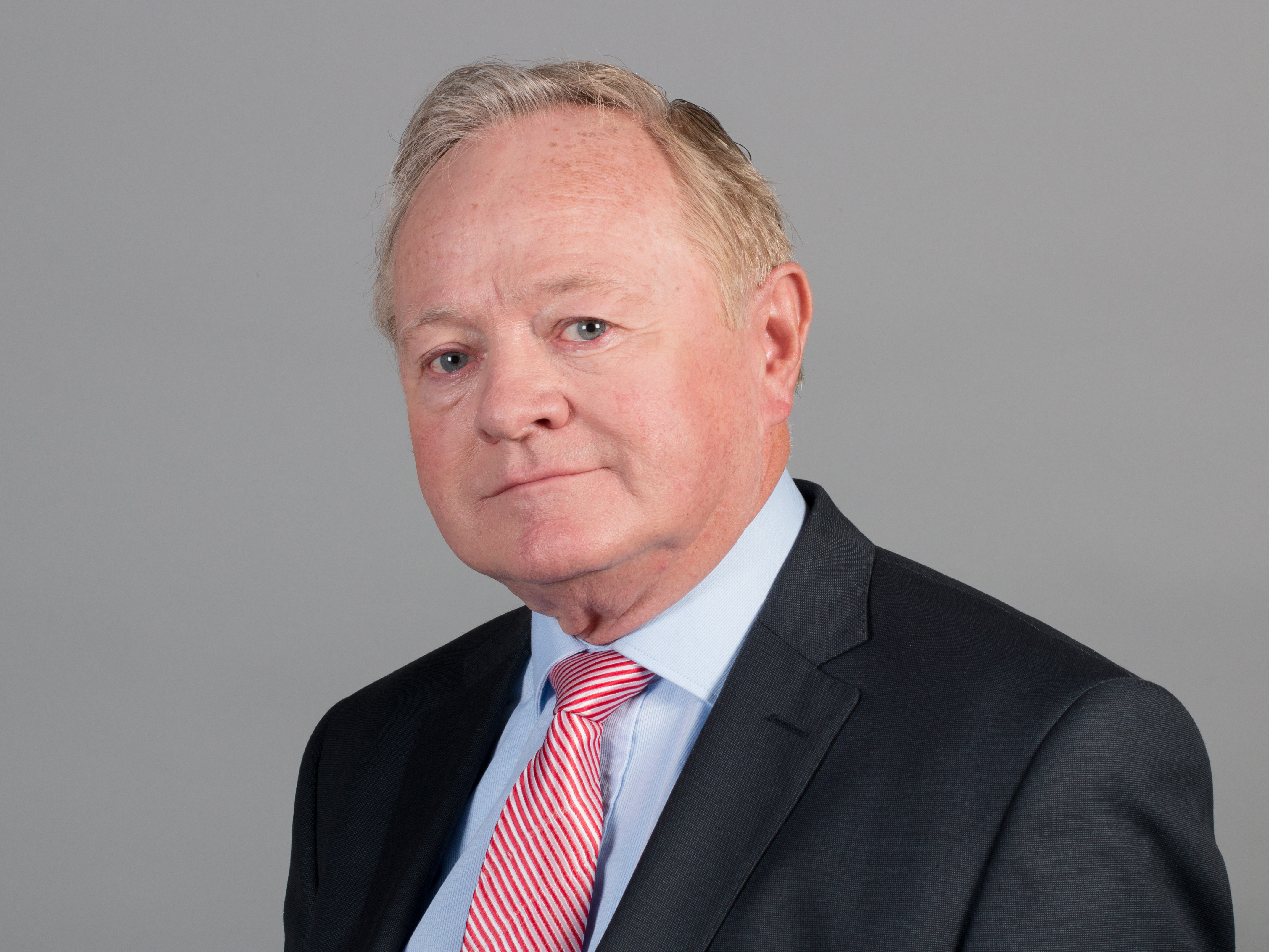 Jim Higgins, Fine Gael, Irish Member of the European Parliament